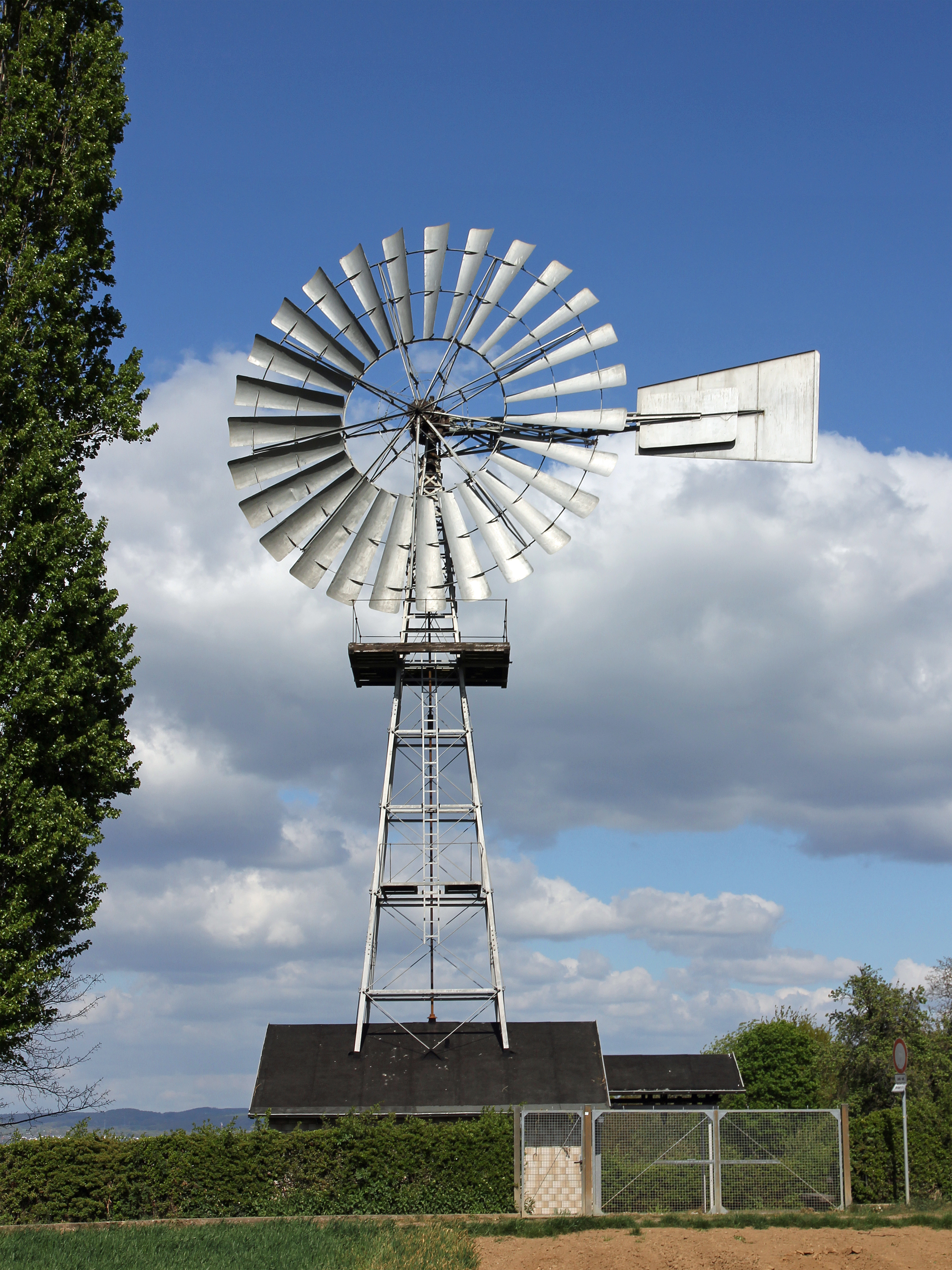 Wind pump at Weidtman Castle in Koblenz